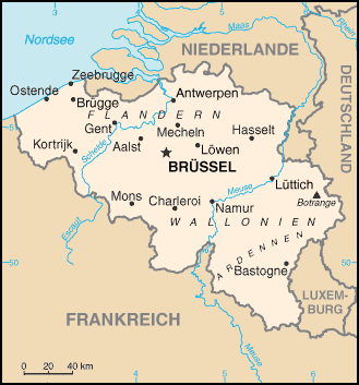 Map of Belgium